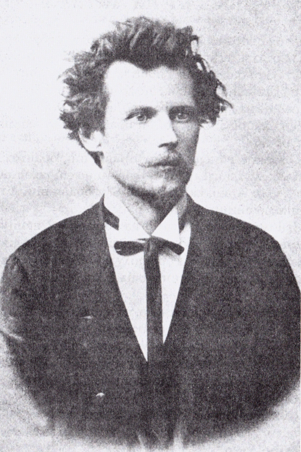 Cheta of Yuli Rosental